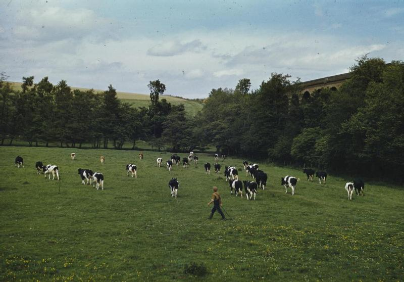 Farming in Britain during the Second World War On William Alexander's farm, Eynsford, Kent. Cowman Percy Paice collects the cows at milking time. The herd consists of approximately 50 Friesians and a few Jerseys.